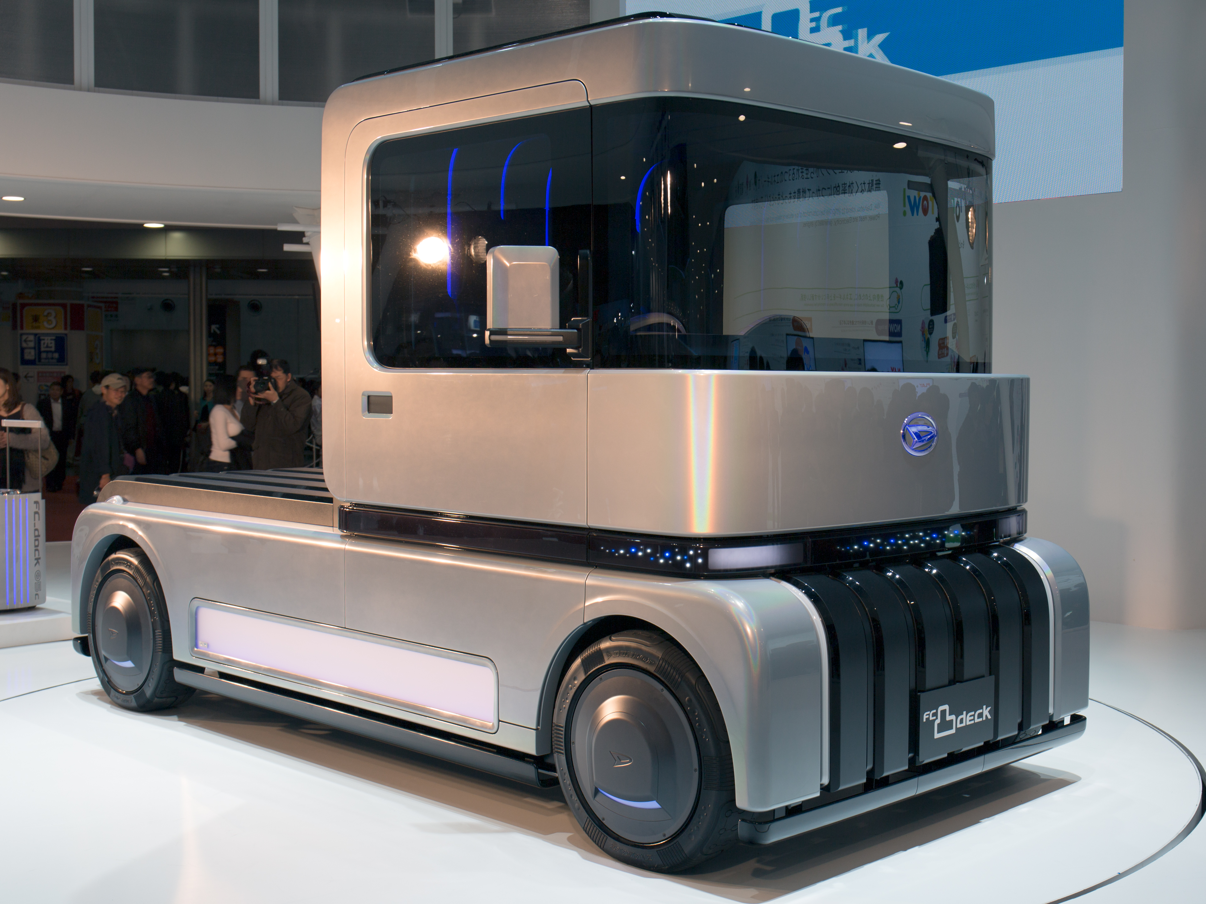 Tokyo Motor Show 2013: Daihatsu FC Deco Deck